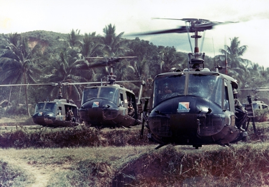 Bruce Crandall leading a formation of UH-1 helicopters from Alpha Company, 229th Aviation Regiment just prior to takeoff in Vietnam.